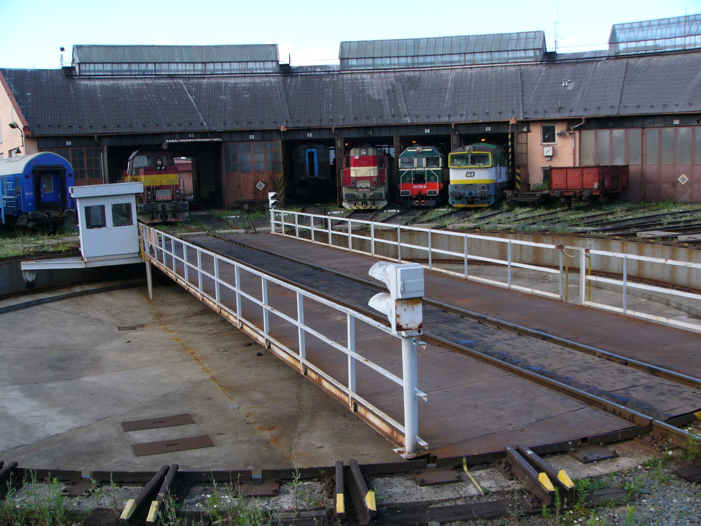 Turntable (railroad) in Olomouc (Czech Republic).